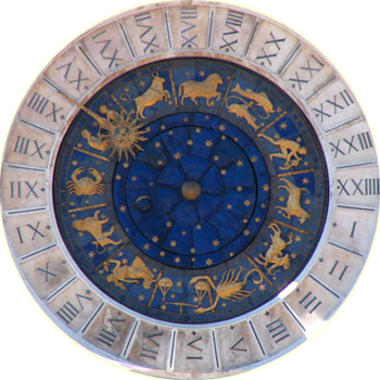 Astrological clock at Venice